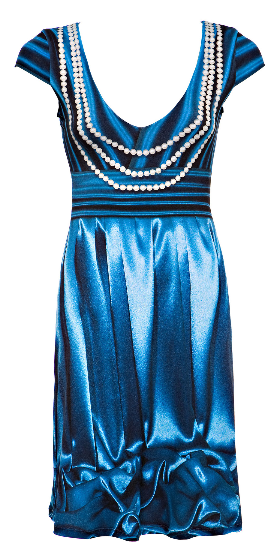 Trompe l'oeil dress. Pearls and satin ruffles printed over plain dress. By Frau Blau